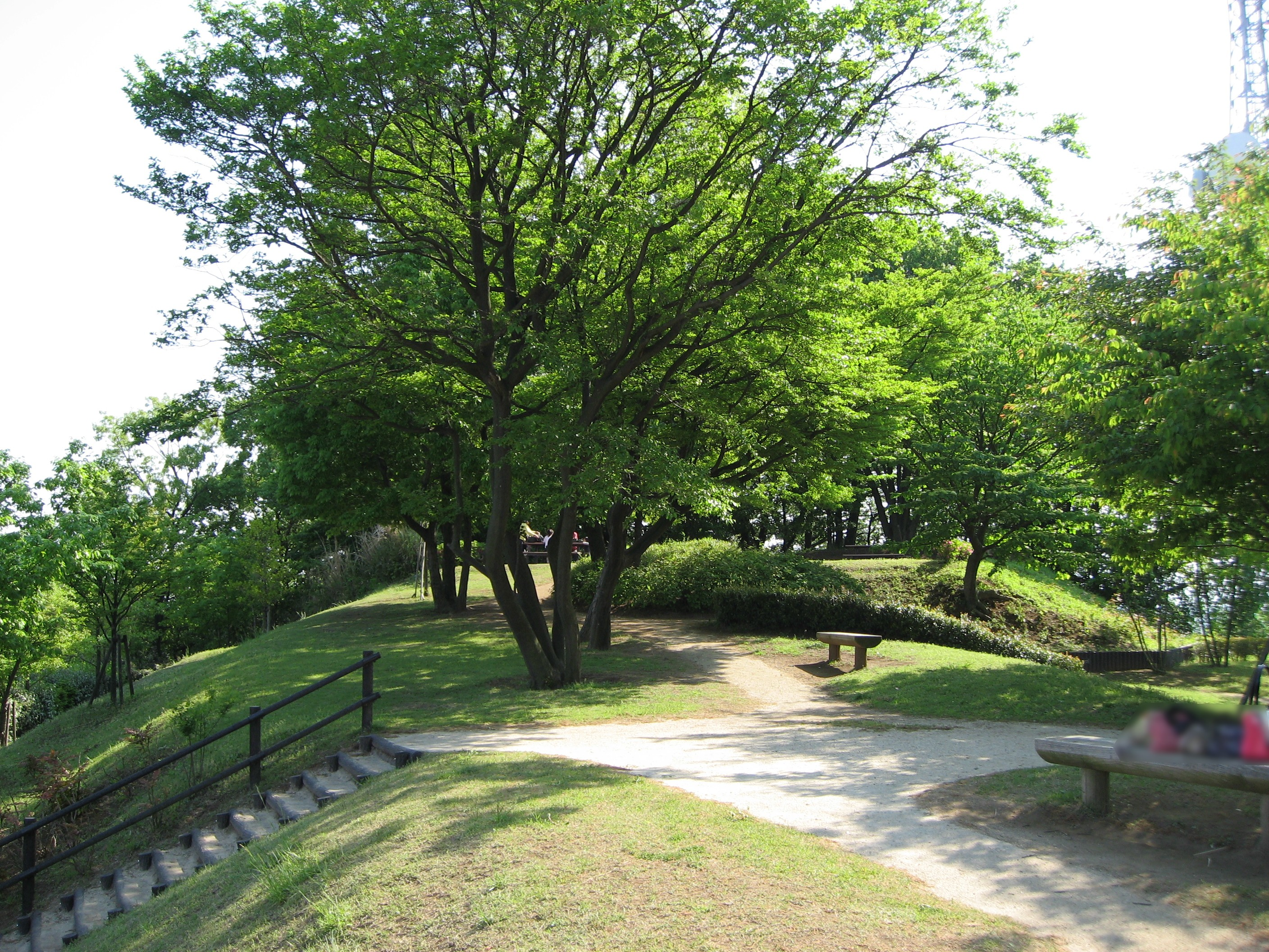 Roads in Miharashi Ryokuchi Park in Inagi, Tokyo, Japan.